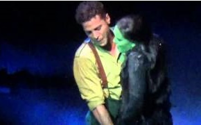 'Wicked' video screen cap with Justin Guarini.